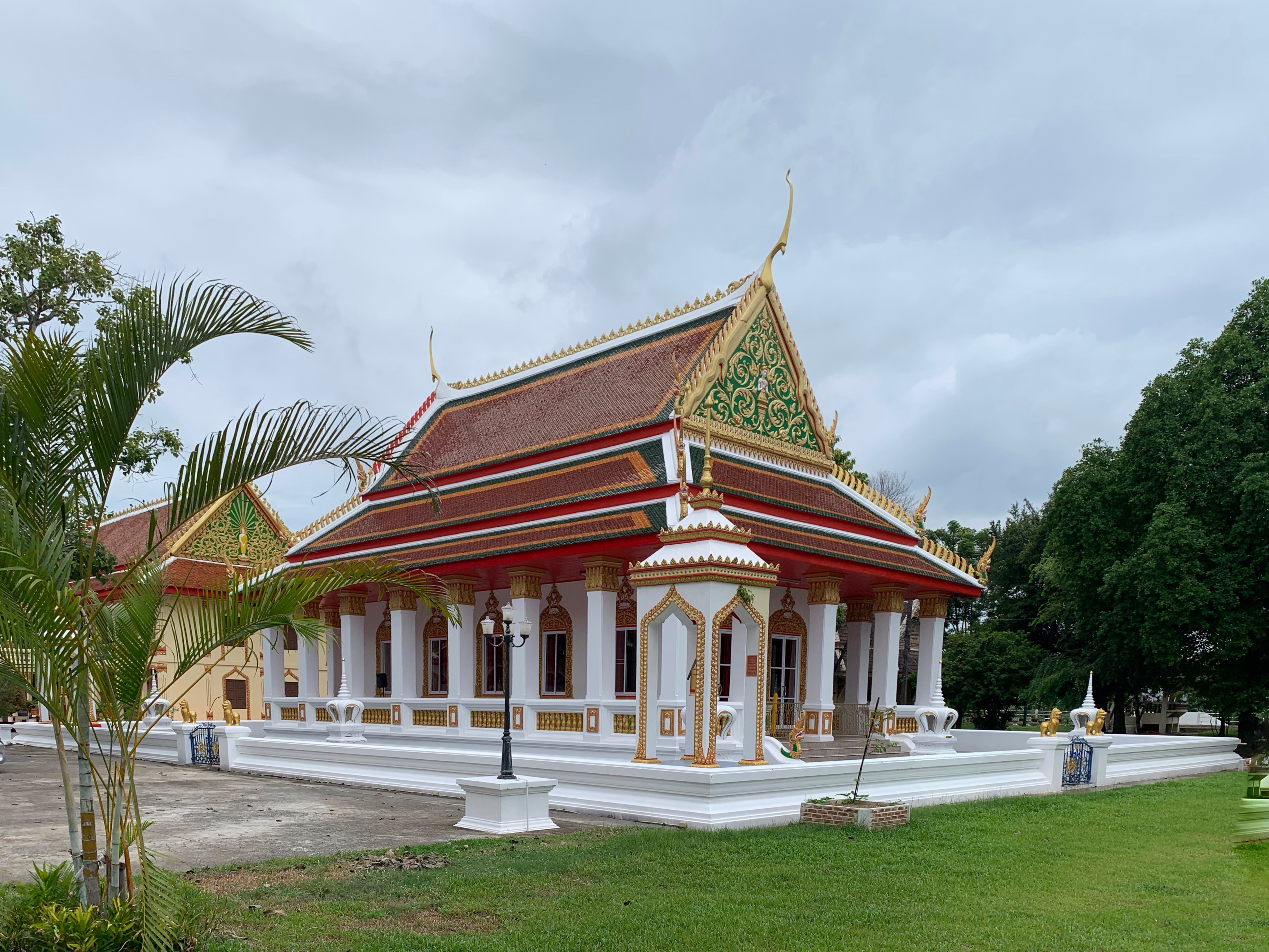 Wat Udom Thani, Nakhon Nayok